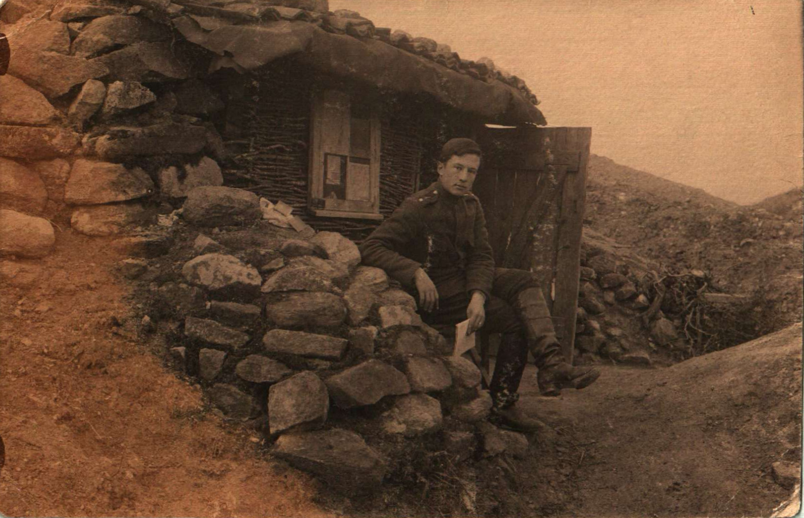 Iliya Kushev